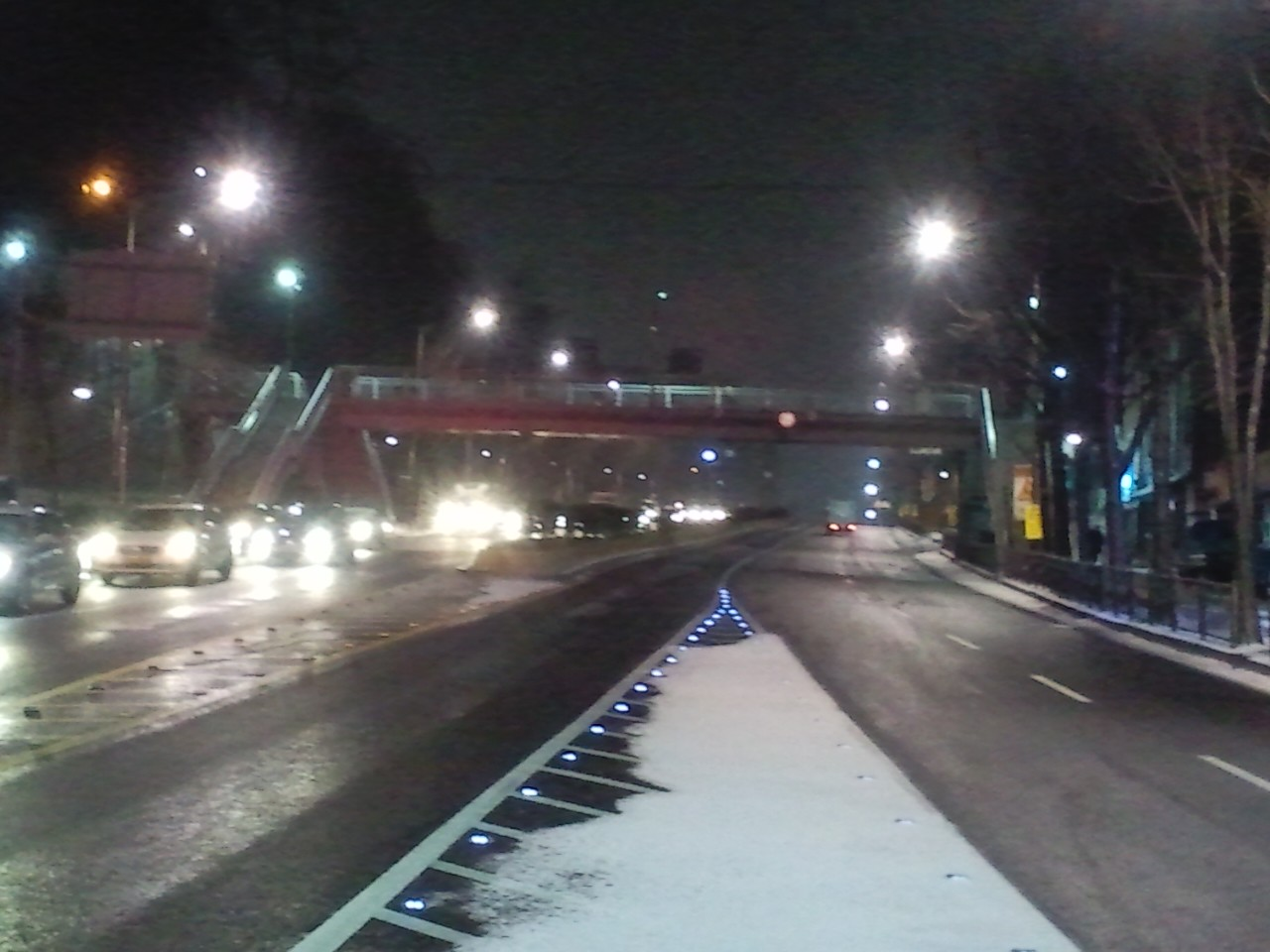 Tongil-ro